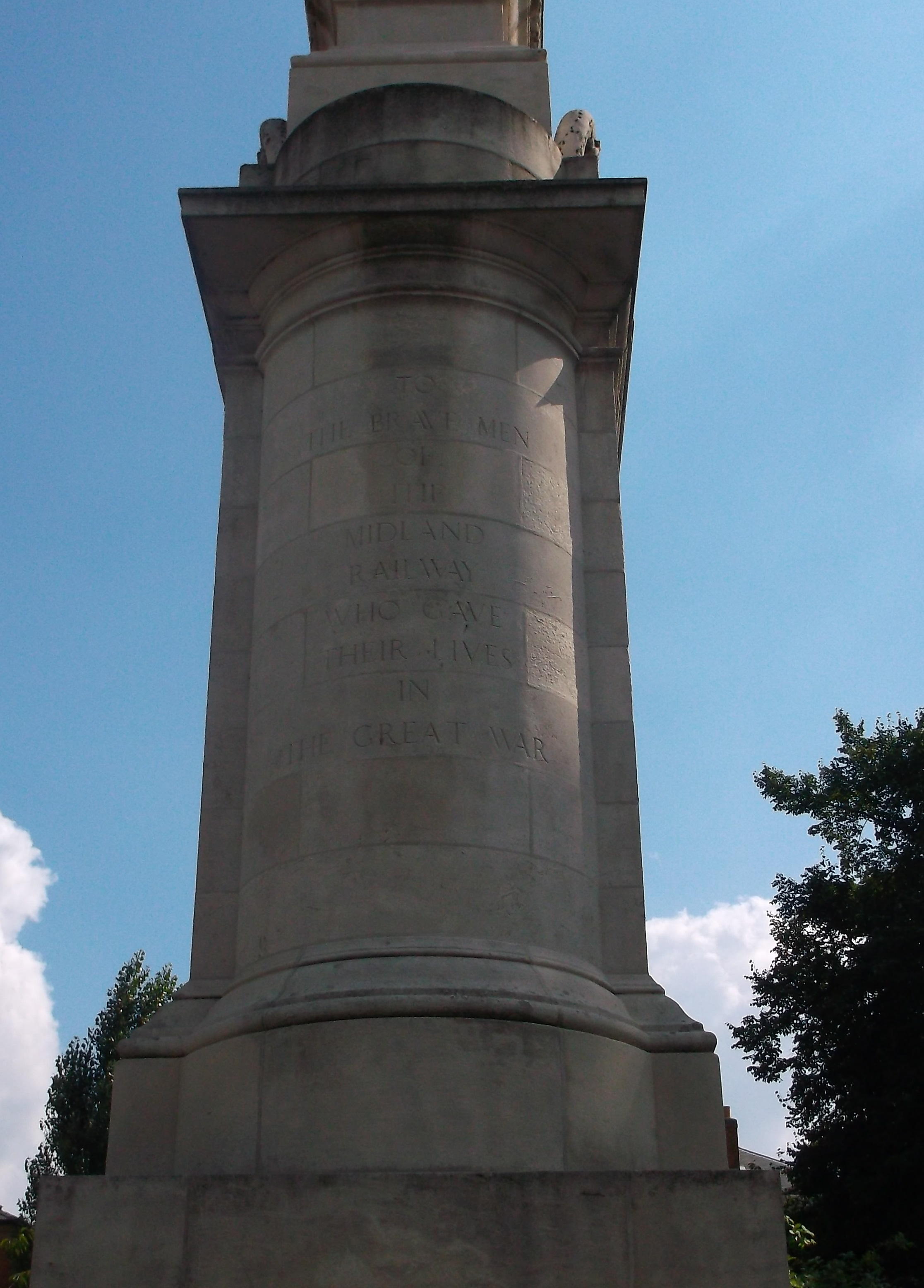 Cropped version of File:Midland Railway War Memorial, Derby 14.JPG. Midland Railway War Memorial, Derby, England.